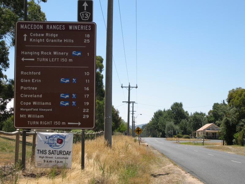 Tourist information sign in Newham, Victoria detailing local vineyards